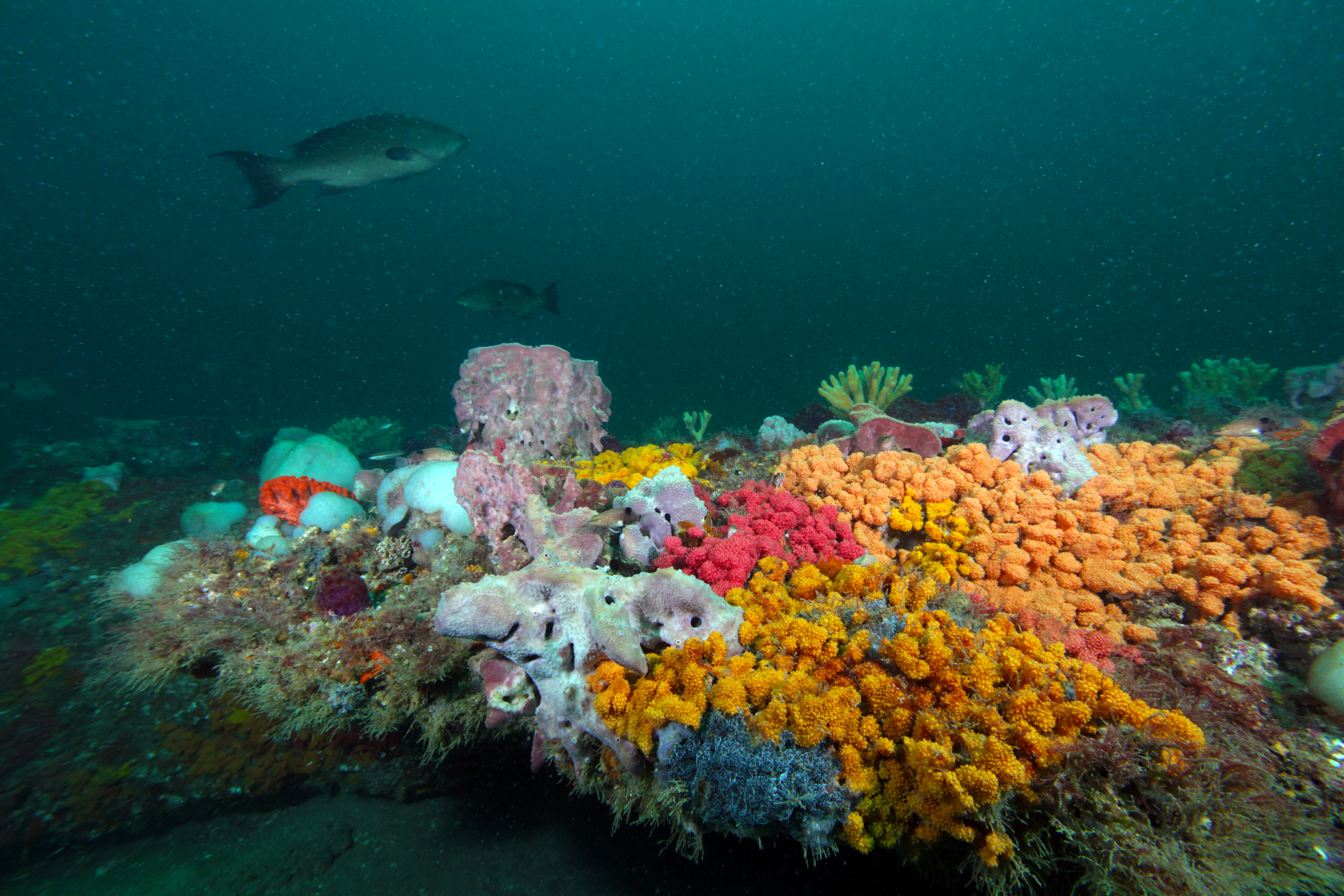 Scamp cruises over colorful sponges and tunicates in Grays Reef National Marine Sanctuary.